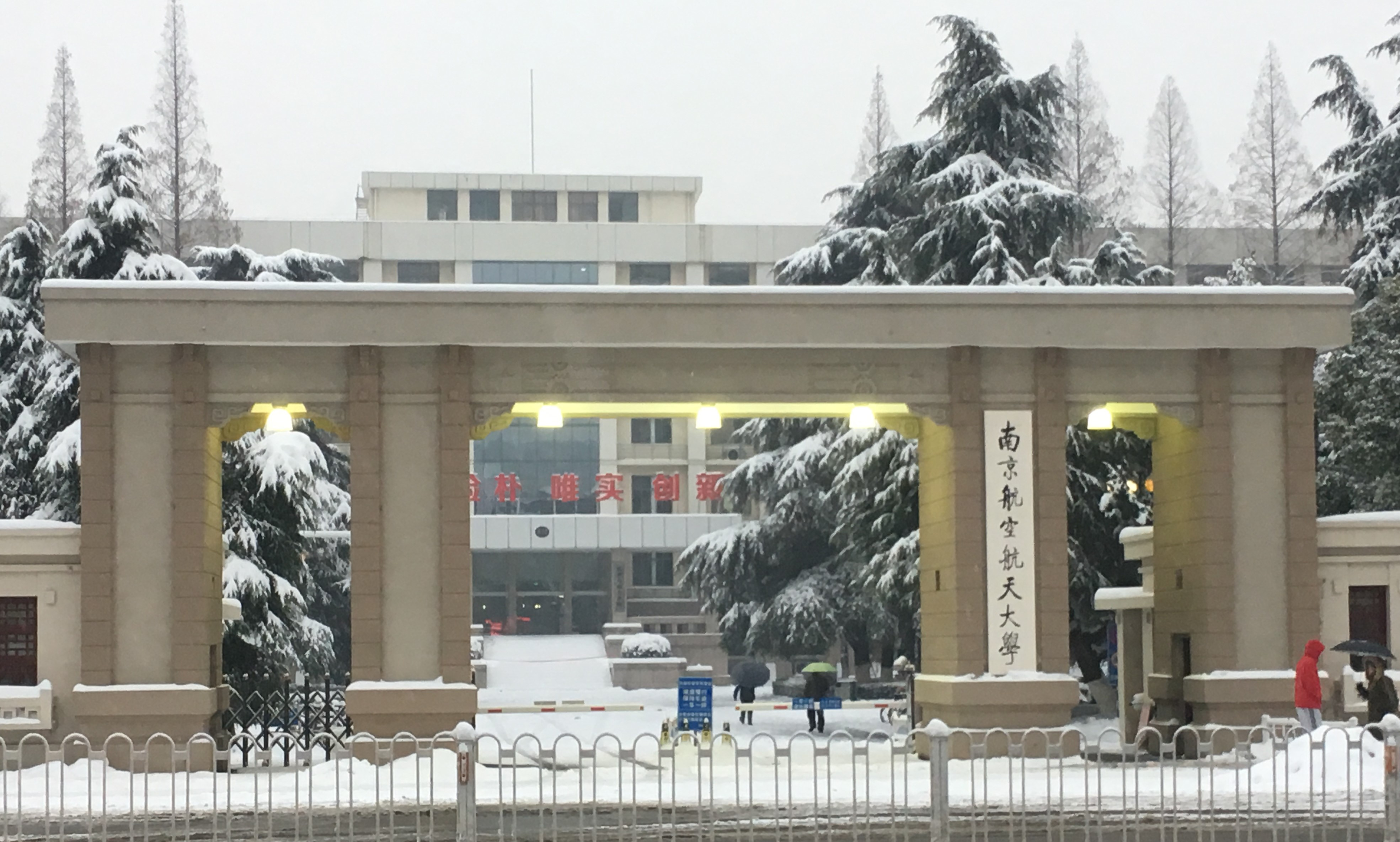 The gate of Nanjing University of Aeronautics and Astronautics Minggugong Campus on Zhongshan East Road